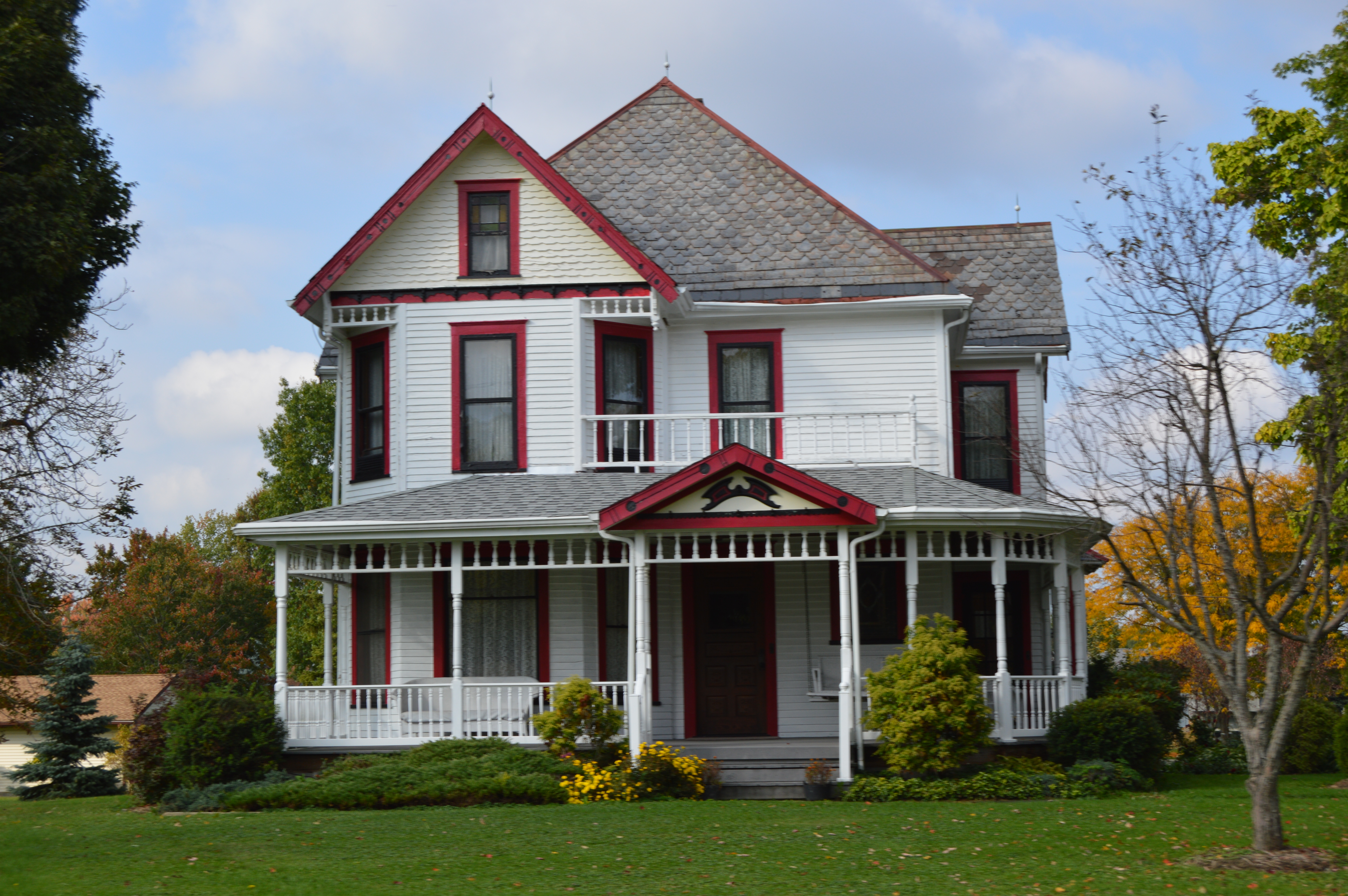 Front of the Almon G. McCorkle House, located at 1180 Salt Springs Road in Lordstown, Ohio, United States. Built in 1895, it is listed on the National Register of Historic Places.